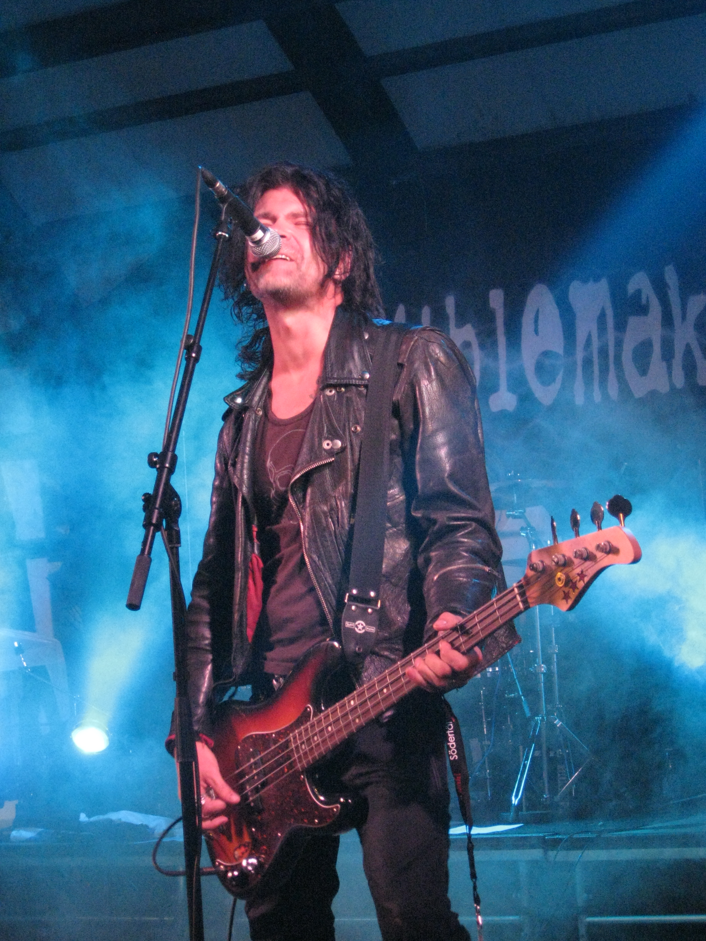 Troublemakers playing at Pretzeltown festival in Södertälje 22 aug 2009.